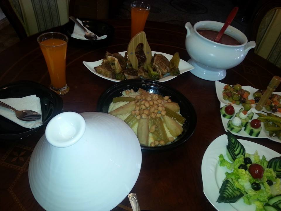 This is an image of food from Algeria